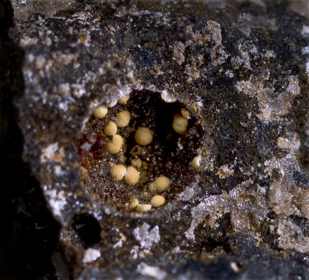 Heliophyllite Locality : Thorikos Bay slag locality, Thorikos area, Lavrion District slag localities, Lavrion (Laurion; Laurium) District, Attikí (Attica; Attika) Prefecture, Greece Size : (Sphere 225µ)